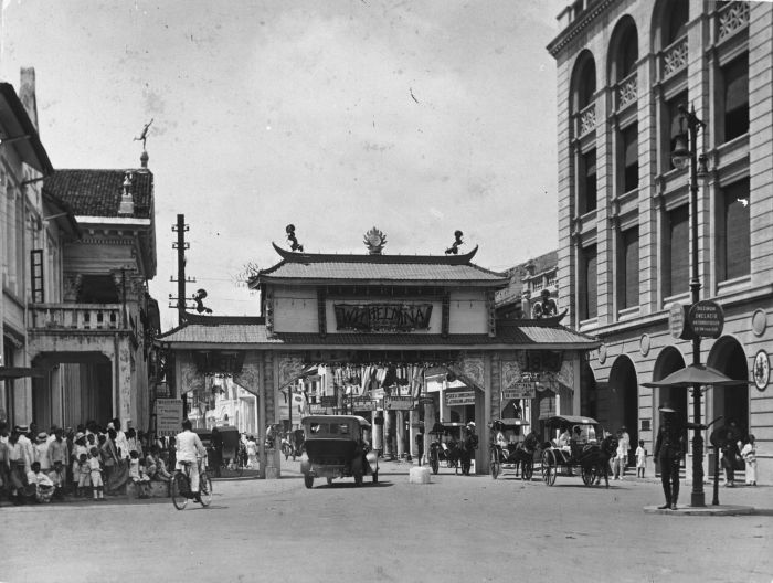 Chinese gate at Kesawan in honour of the 25th anniversary of Queen Wilhelmina's Reign